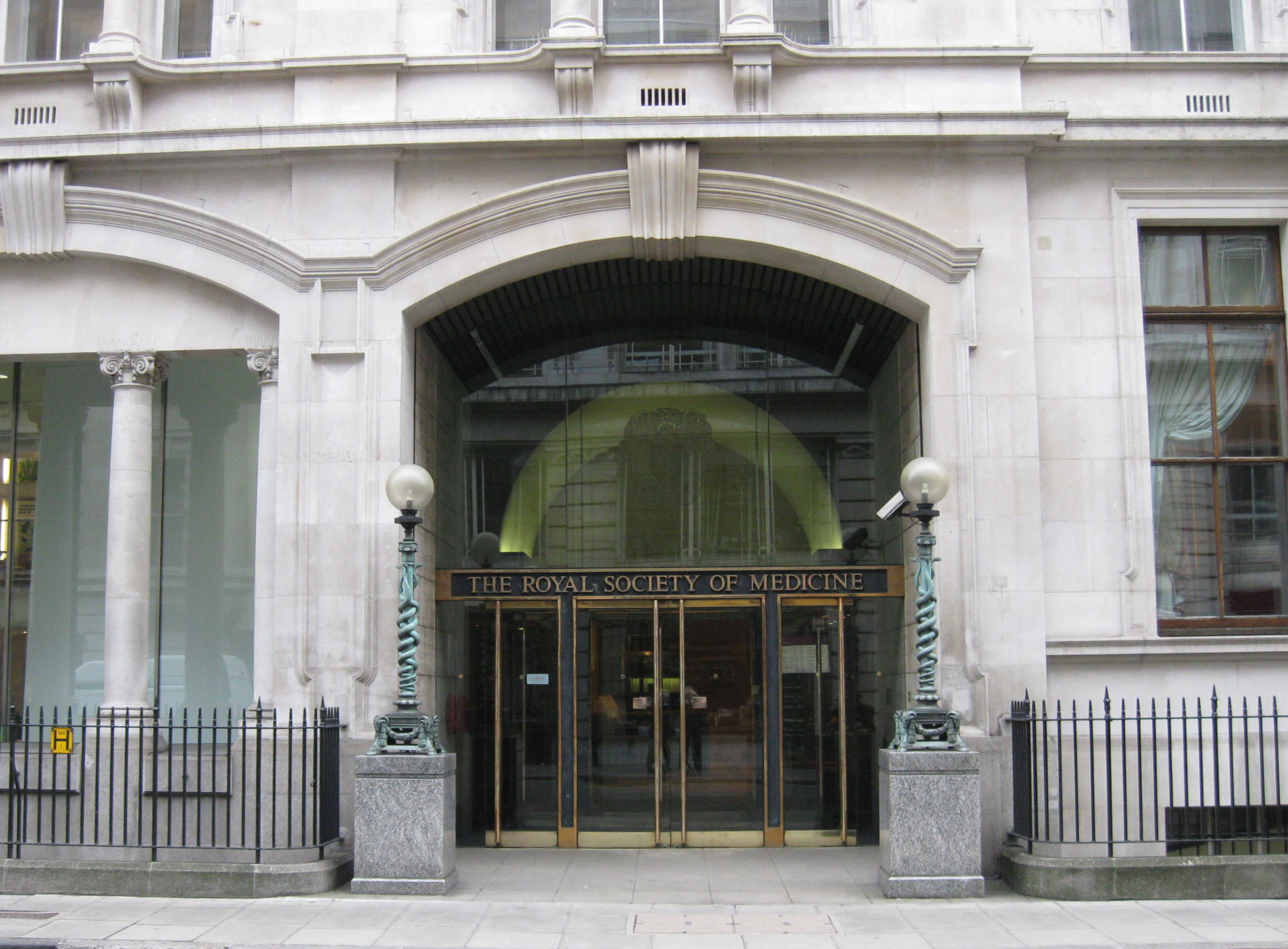 Royal Society of Medicine, headquarters, 1 Wimpole Street, Westminster, London W1G 0AE. Edwardian baroque building completed 1912 under architect John Belcher.